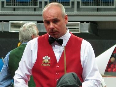 Darren Morgan (Wales) at the European Snooker Chamiponship 2008.